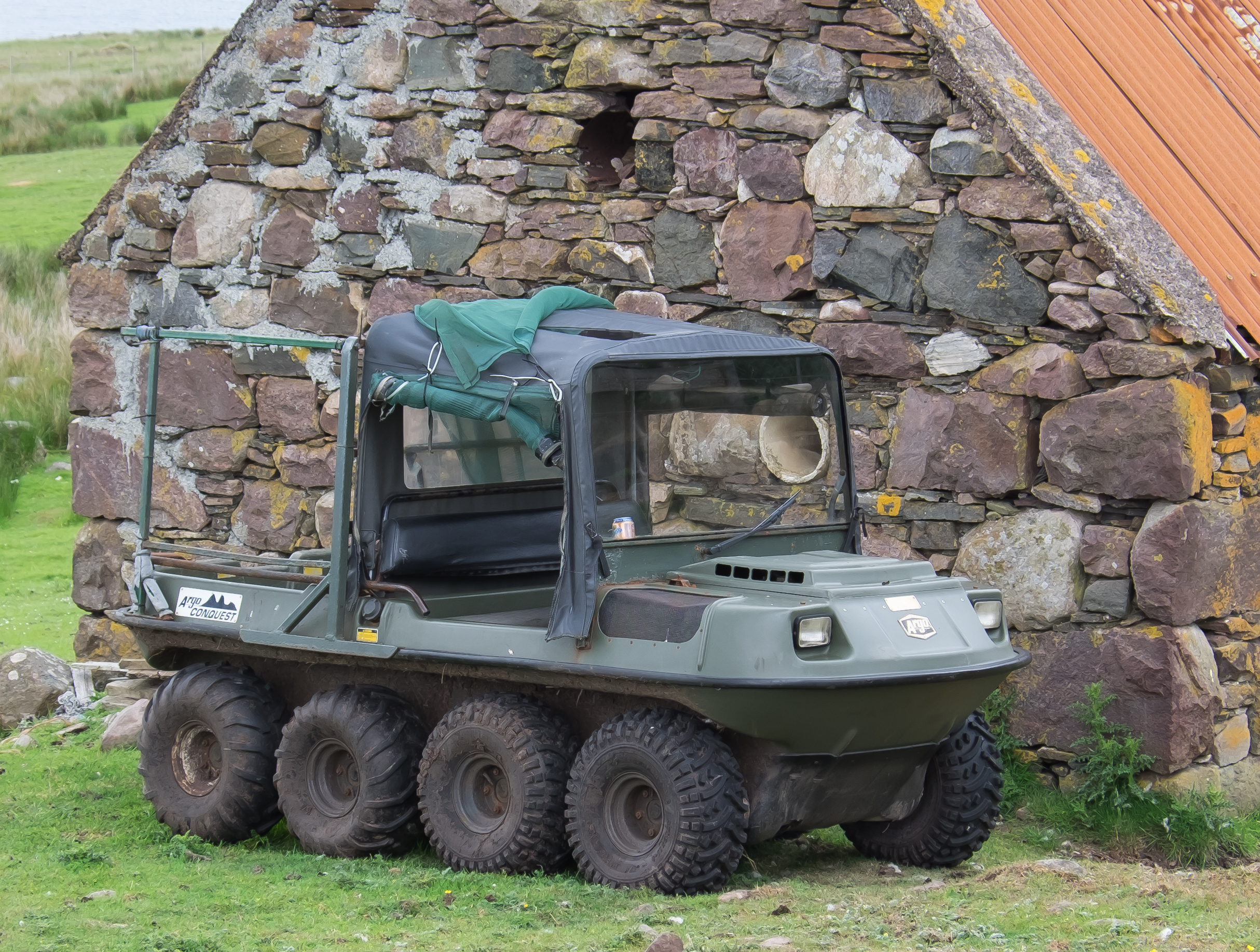 ARGO Conquest 8x8 All Terrain Vehicle